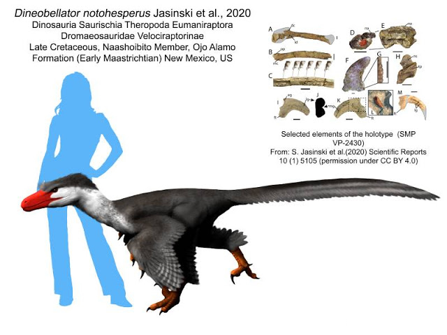 Dineobellator notohesperus Jasinski et al., 2020 Systematics: Dinosauria Saurischia Theropoda Eumaniraptora Dromaeosauridae Velocirpatorinae Size: 2.5 m Type Horizon and Locality: Late Cretaceous, Naashoibito Member, Ojo Alamo Formation (Early Maastrichtian) New Mexico, US Type Specimen: SMP VP-2430, disarticulated skeletal elements This is a newly described species of Velociraptorine from the Late Cretaceous of New Mexico. It is known from small bits of the skull and postcranial skeleton, including the ulna showing quill knobs, an indication of the presence of feathers. March 29, 2020 References: Jasinski, S.E., Sullivan, R.M. & Dodson, P. New Dromaeosaurid Dinosaur (Theropoda, Dromaeosauridae) from New Mexico and Biodiversity of Dromaeosaurids at the end of the Cretaceous. Sci Rep 10, 5105 (2020). All illustrations on this site are copyrighted to Nobu Tamura. The low resolution versions of the images are licensed under Creative Commons Attribution- ShareAlike (CC BY-SA) license meaning that you are free to use them as long as you properly credit the author (© N. Tamura). High resolution versions are available upon request. Questions: contact me at nobu dot tamura at yahoo dot com.